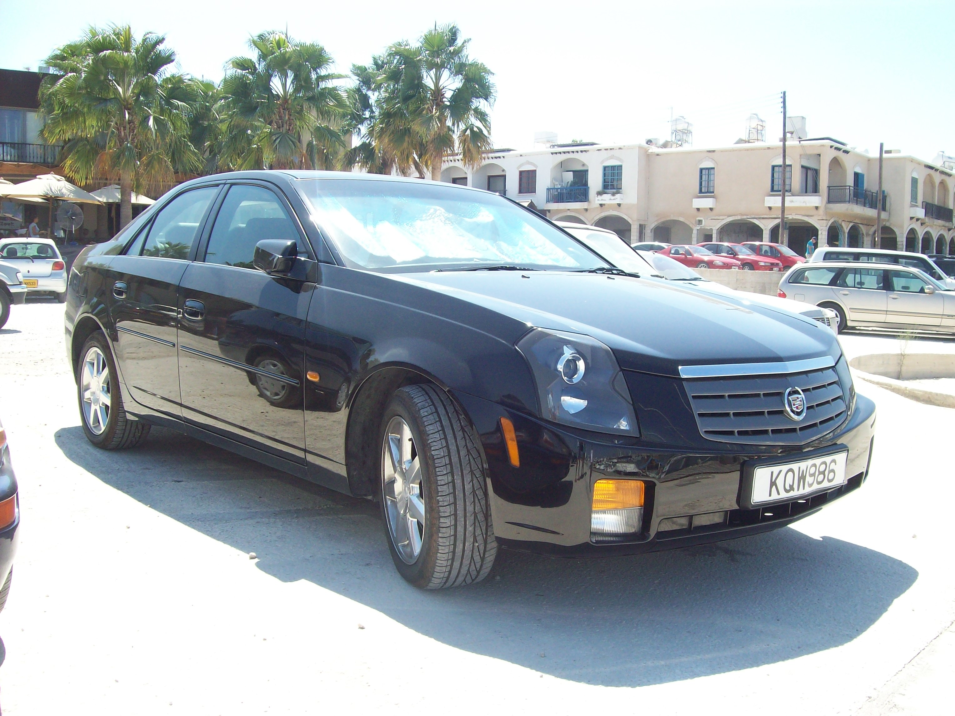 Cadillac CTS in Polis, Cyprus